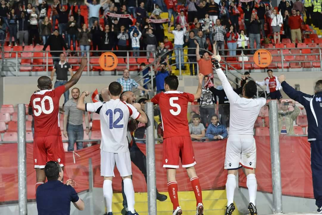 Balzan F.C. players and supporters celebrate their Club's historic qualification to the UEFA Europa League following a 3 -1 victory against Champions Hibernians F.C. on 26 April 2015.